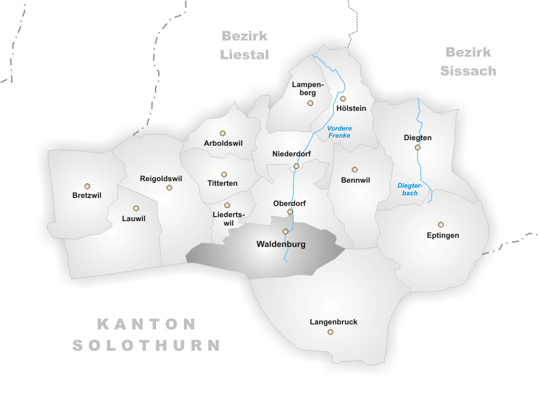 Municipality Waldenburg